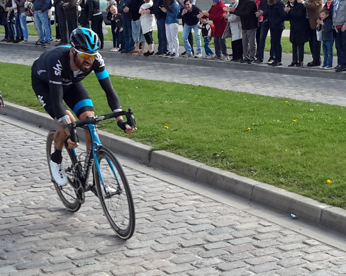 Sir Bradley Wiggins in his last race for Team Sky, the 2015 Paris-Roubaix road race, April 12 2015.